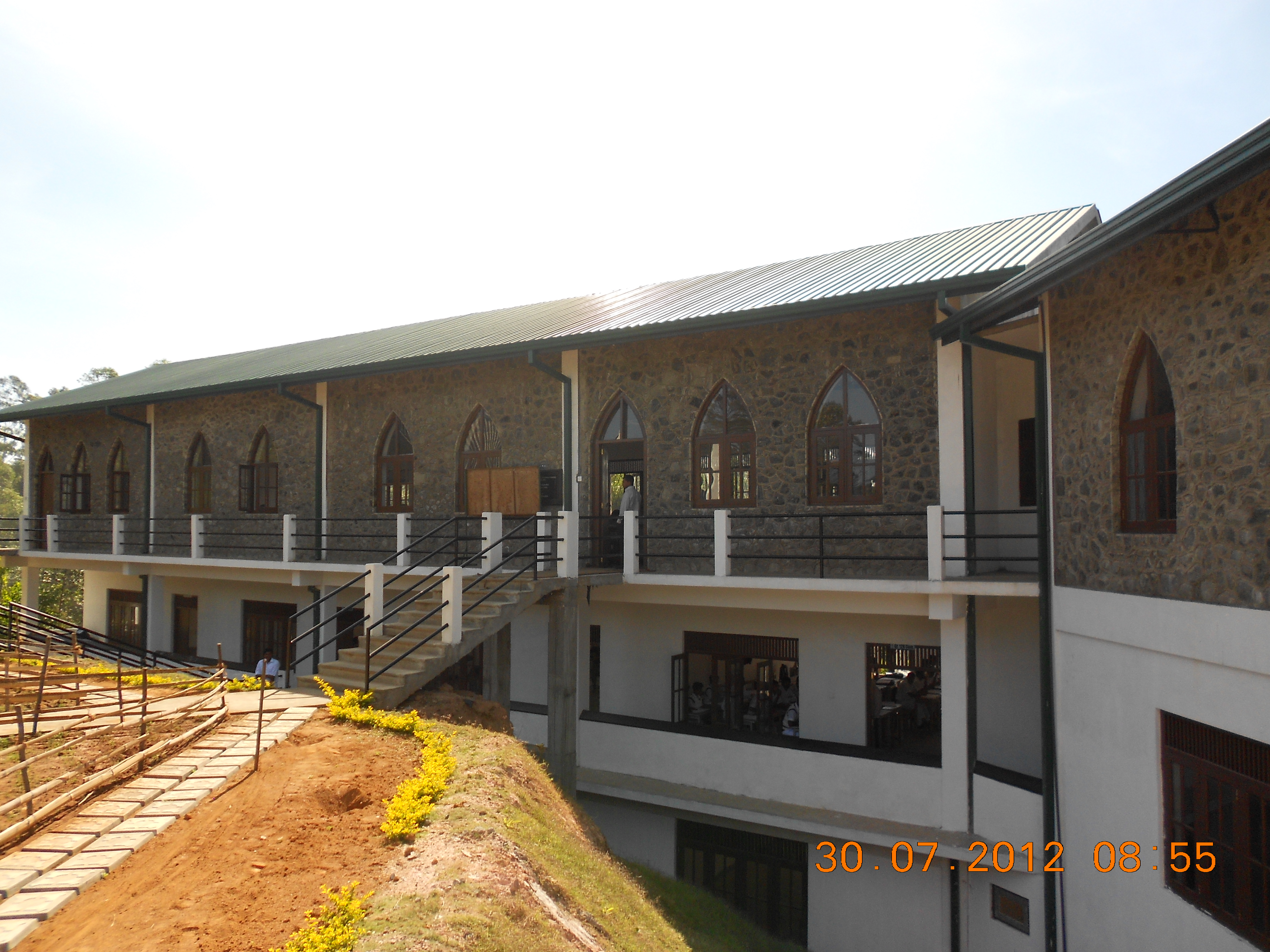 The new classroom complex for Advanced Level students was completed and opened in the latter part of 2011.